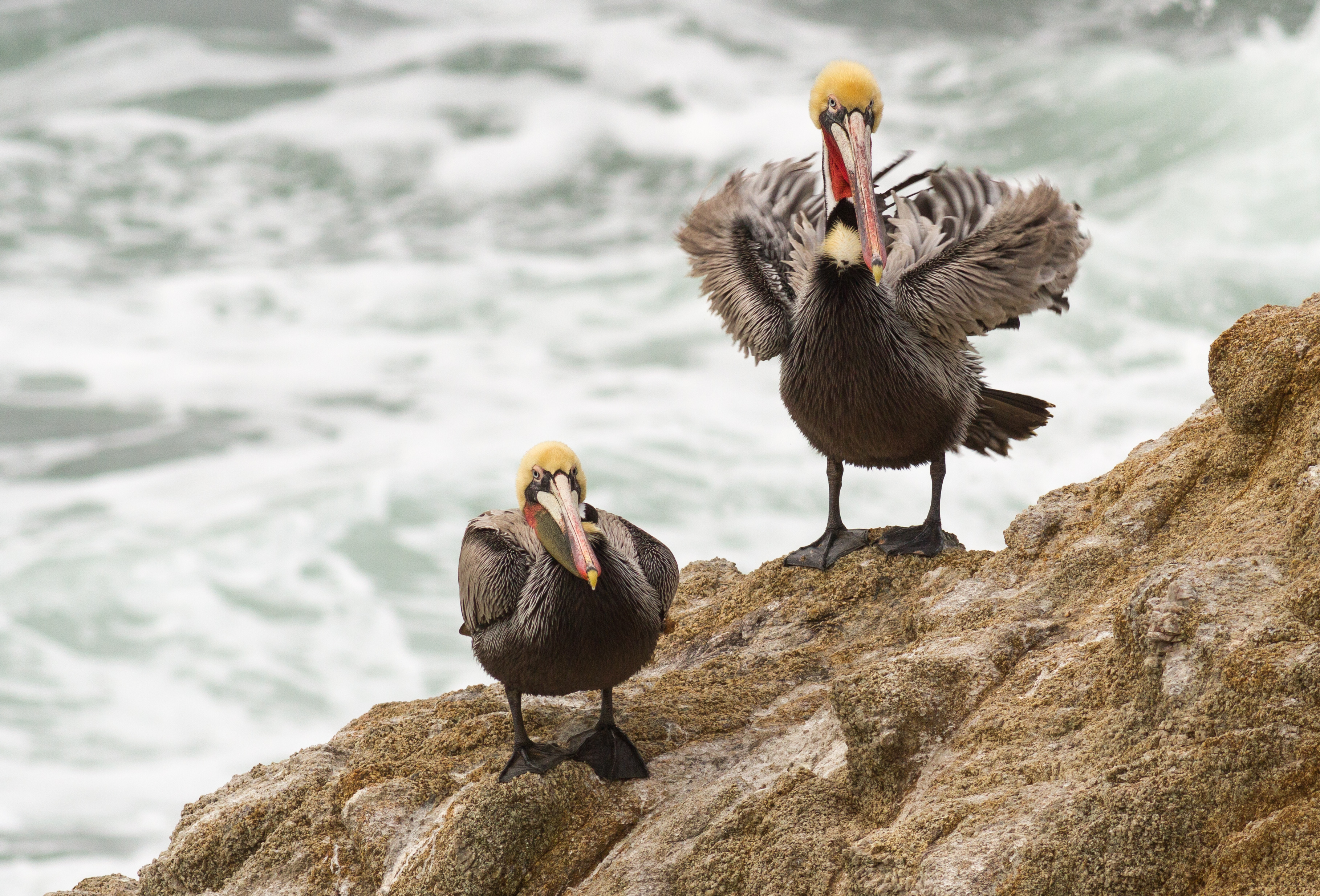 Two brown pelicans (Pelecanus occidentalis californicus) at Bodega Head, Sonoma County, California, on a windy day.